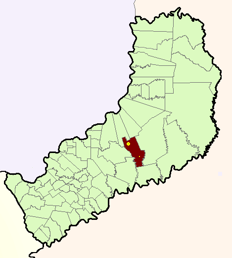 A map of Dos de Mayo's municipio in Misiones province, Argentina. The big point is Dos de Mayo town, the little one is Pueblo Illia town.